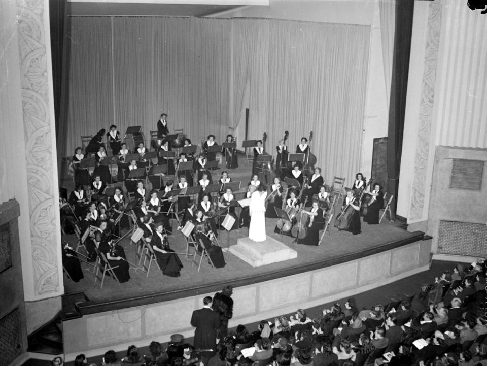 The Montreal Women's Symphony Orchestra, under the direction of Ethel Stark, presents a concert in the auditorium of the Plateau, Calixa-Lavallée Avenue in Montreal.